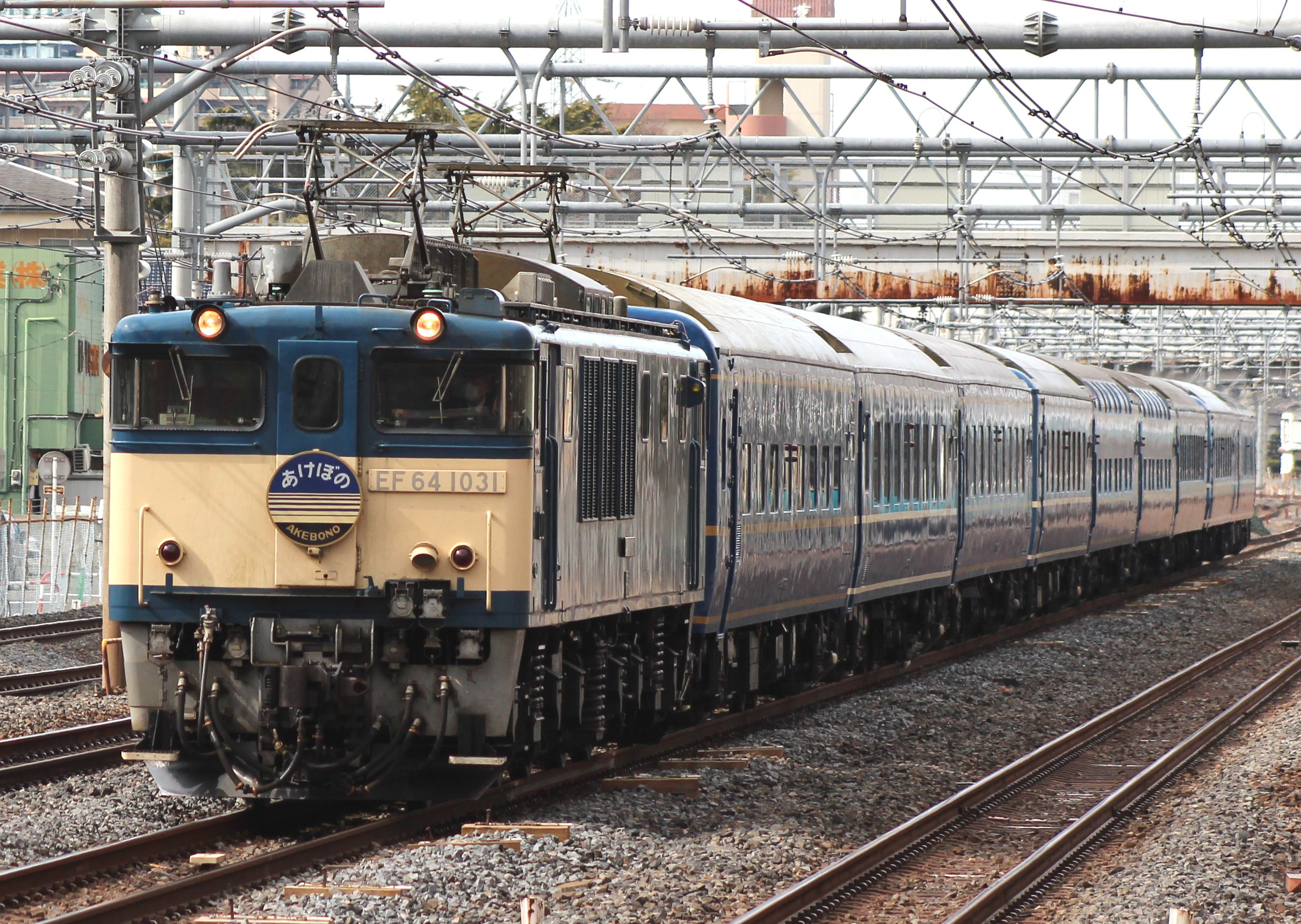 The JR East overnight sleeping car service Akebono hauled by class EF64-1000 electric locomotive EF64-1031